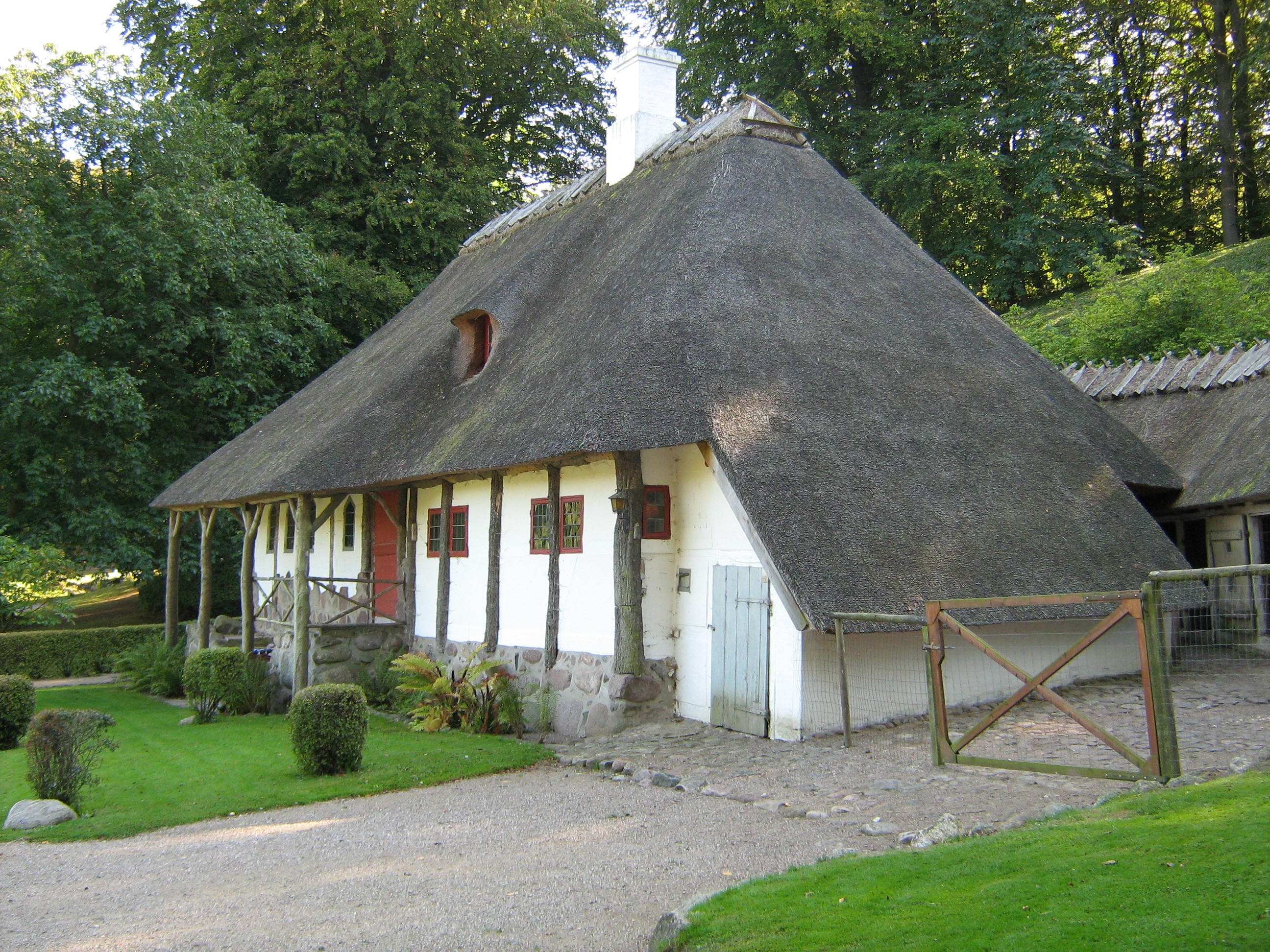 Liselund, Møn, Denmark. Schweizerhytten or the Swiss House.